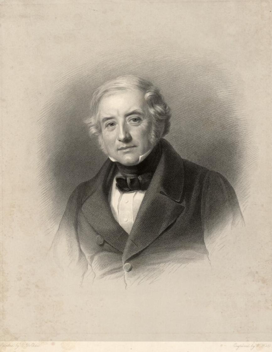 A portrait from the Welsh Portrait Collection at the National Library of Wales. Depicted person: Richard Richards – Welsh politician (1787–1860)